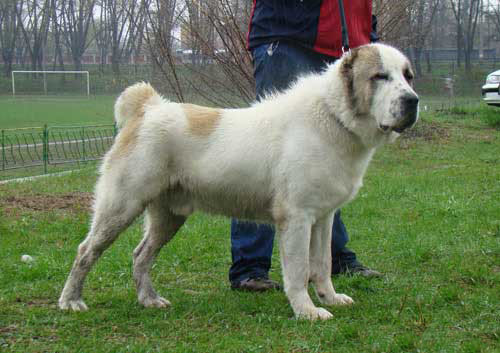 Central Asian Shepherd Aladzha Kara Yulduz. Titles: Junior Champion of Ukraine, young champion of Ukrainian club of breed